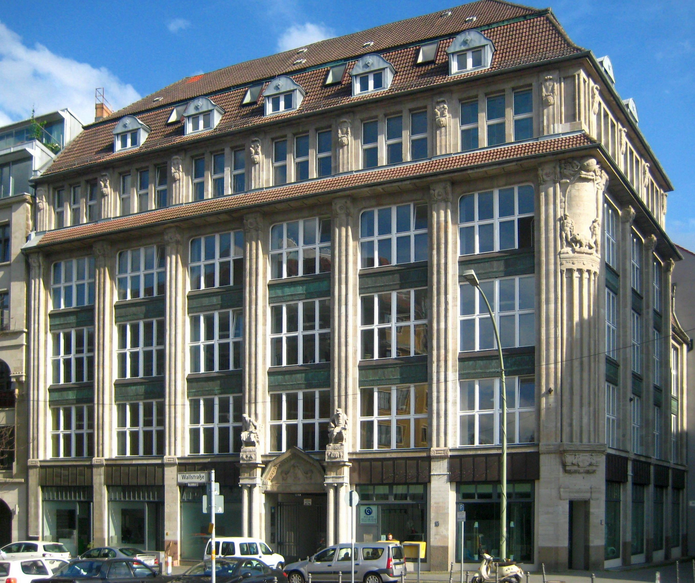 The former commercial building Lebram at Wallstraße No. 15-15A, corner of neue Grünstraße in Berlin-Mitte, built 1910 to 1911 by the architects Hoeniger & Sedelmeier for the gold articles business Lebram. The complex with four wings and an inner yard received a lavish design with its columned limestone facade and ornaments by the sculptor Richard Kühn (e.g. sculptures of the goldsmiths Peter Henlein and Benvenuto Cellini at the portal). The building was formerly seat of the East German VEB Outer Clothing Berlin; attorney's offices and an art gallery are now located here. The building has been designated as a historic landmark.